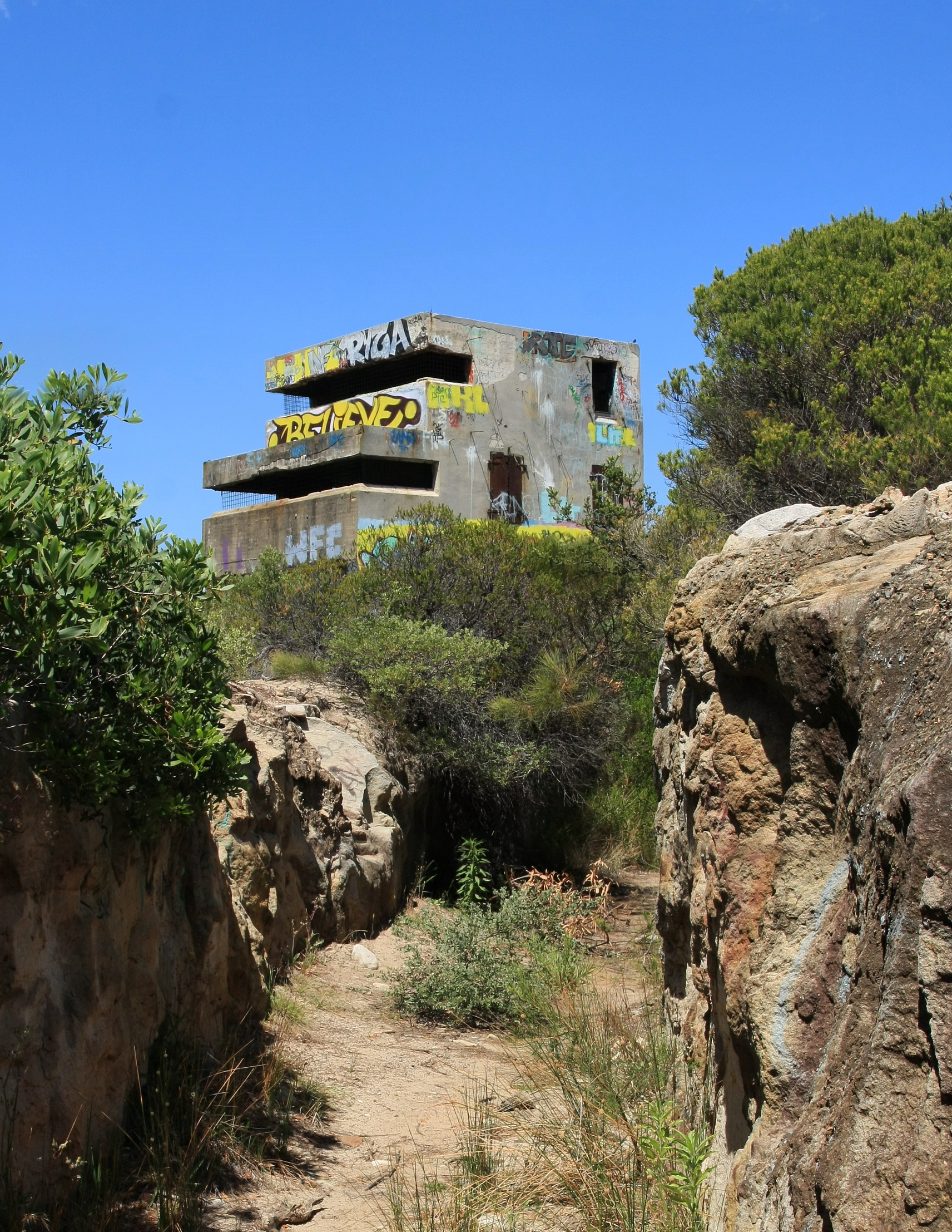 Malabar Battery. Four story observation post that forms part of the Malabar Battery and bunker complex. The trench in the foreground is a small gauge tramway line that was used for the transportation of munitions and supplies to the gun emplacements